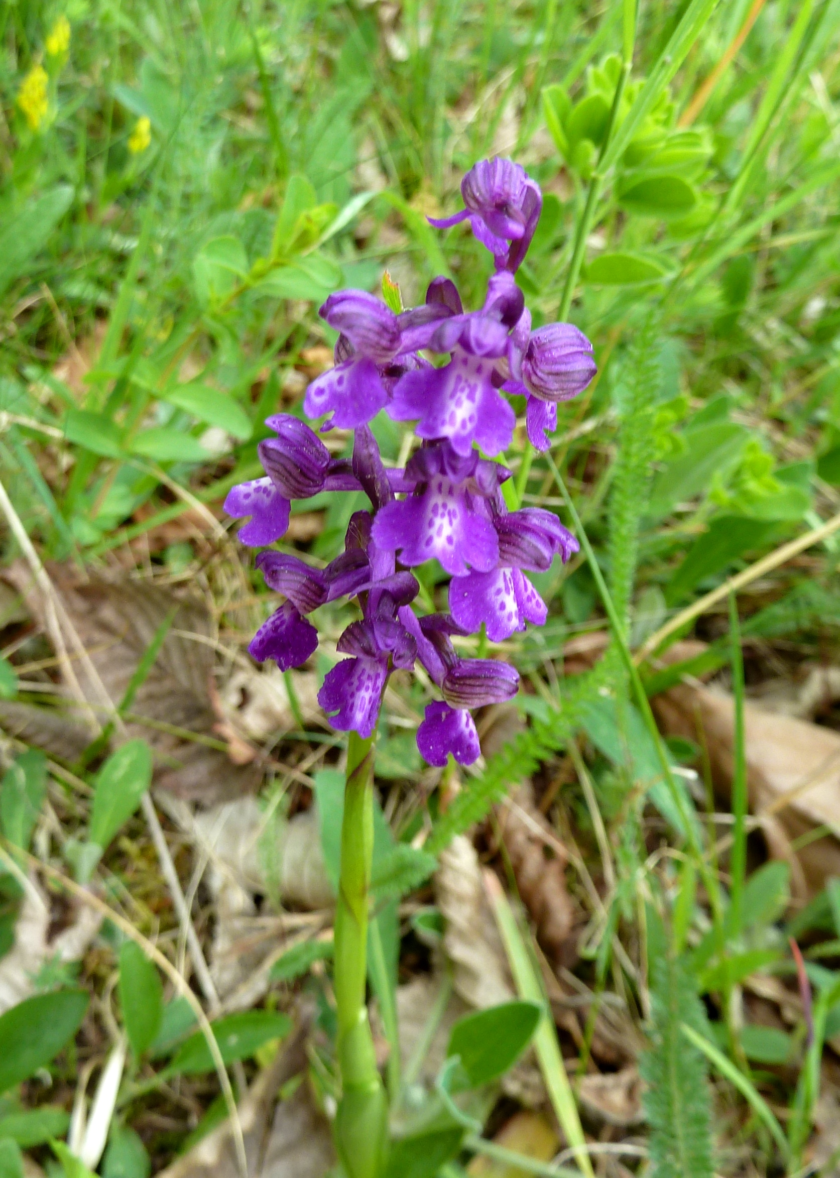 Orchis morio in nature reserve Malý Kosíř